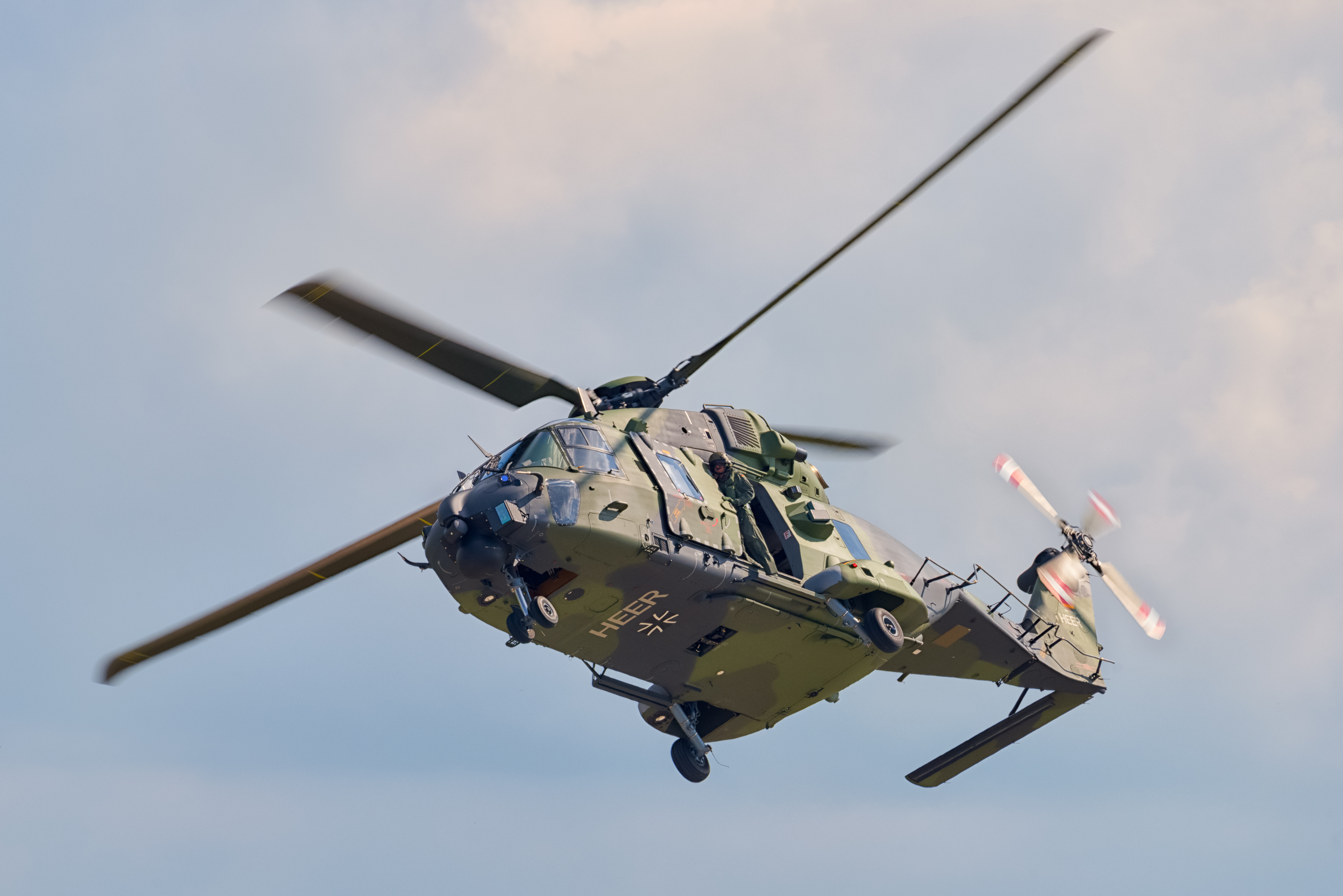 German Army (Heer) NHIndustries NH90 TTH (reg. 78+31, cn unknown) at ILA Berlin Air Show 2016.